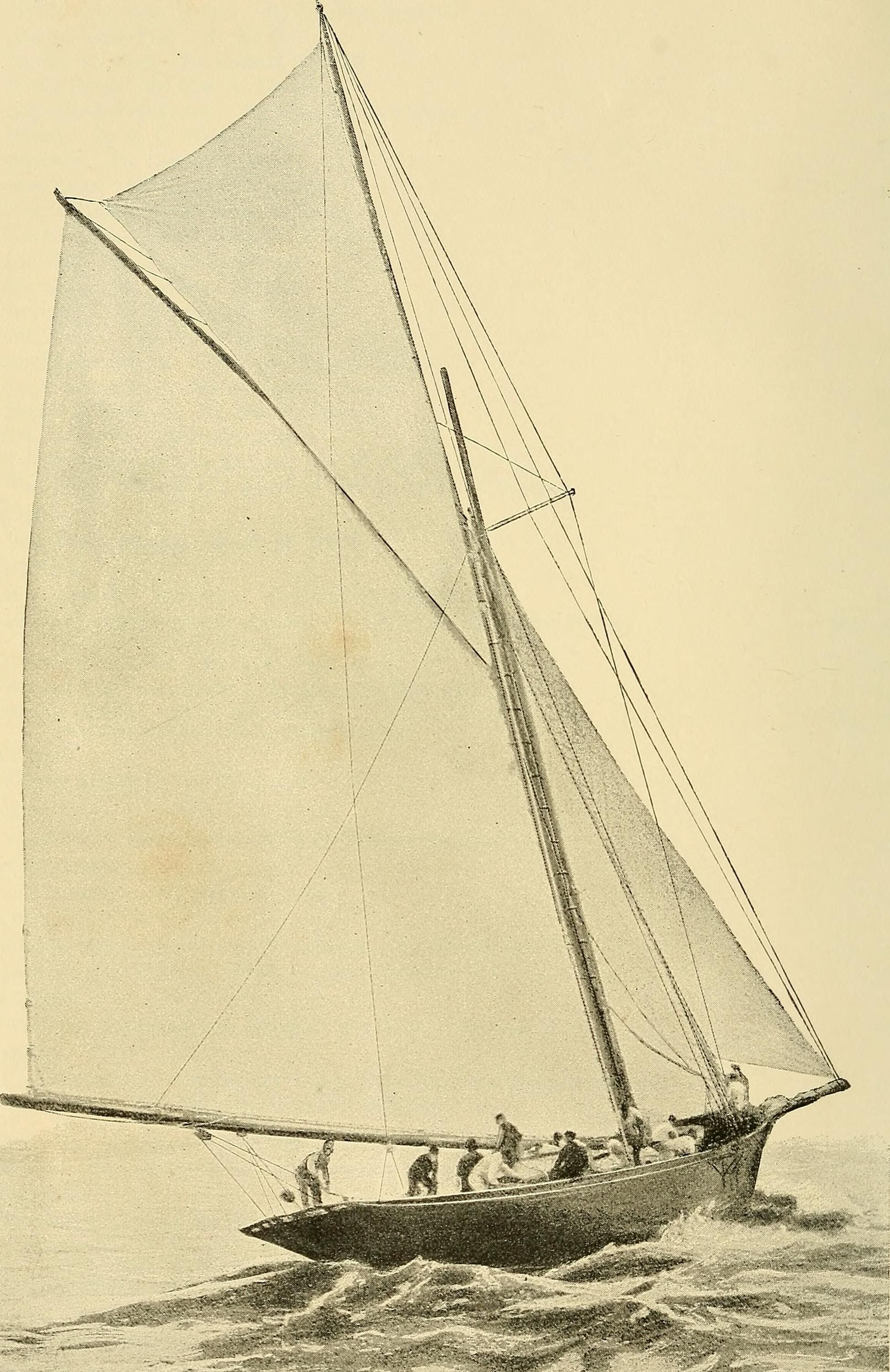 Title: Outing Year: 1885 (1880s) Authors: Subjects: Leisure Sports Travel Publisher: (New York : Outing Pub. Co.) Text Appearing Before Image: TRAVEL. Among the Basques and Navarrese. By John Heard, Jr Lost in the Jungle. By A. C. Allen Chamberlain .... TRAINING. Physical Training for Women. By W. G. Anderson, M. D. . WOMEN. On Horseback over Byways near Natchez. By Margaret Bisland Fencing for Women. By Margaret Bisland .... Illustrated by O. A. Wigand.Physical Training for Women. By W. G. Anderson, M. D .• Women and Their Guns. By Margaret Bisland YACHTING. Prospects of the Yachitng Season. By Sinbad the Sailor Valkyrie in British Waters, The. By F. C. SumichrastWith full-page illustration of yacht race. EDITORS OPEN WINDOW . OUTING CLUB, THE AMONG THE BOOKS THEATRICAL PLAYGROUND, OUR RECORD, OUR MONTHLY* . . * The pages of Records are numbered at the bottom of the page and are distinct fromof the magazme. PAGE 284 219 10 425240400 27 47516044435137152183112212 445 80 312 332 184304, 360 . 203 . 225 163, 273 64, 109364 75. 157, 236, 313, 393 76, 159, 237, 317, 398 .• .7879- 239, 319 I, 13. 23 33. 53those of the body LA Text Appearing After Image: LORD DUNRAVENS SEVENTY-FOOT CUTTER VALKYRIE. r V Outing Vol. XV. OCTOBER, il No. I. THE TRAIL OF THE BISON.outing15newy